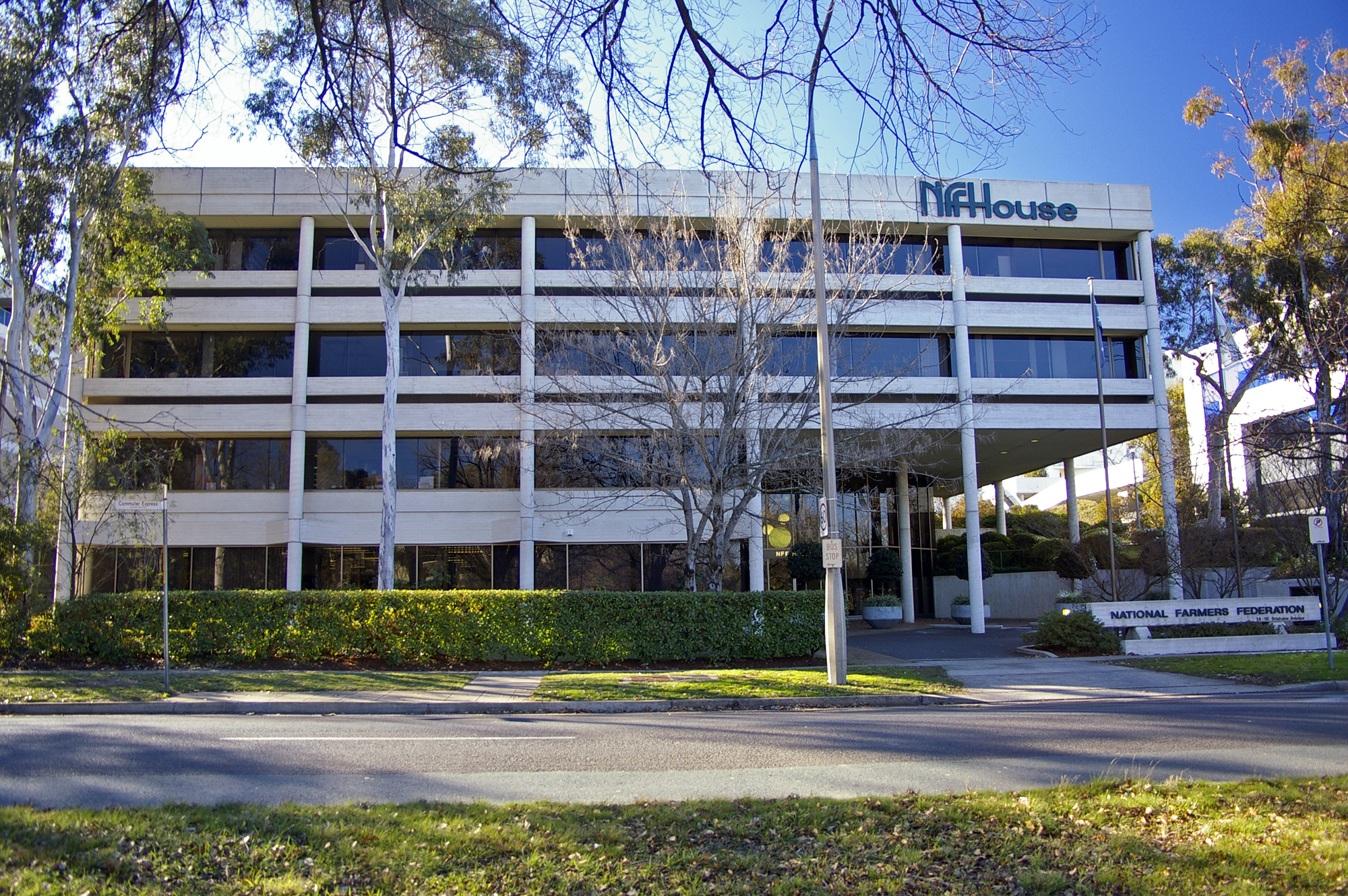 National Farmers' Federation Headquarters located on Brisbane Avenue in the Canberra suburb of Barton, Australian Capital Territory.